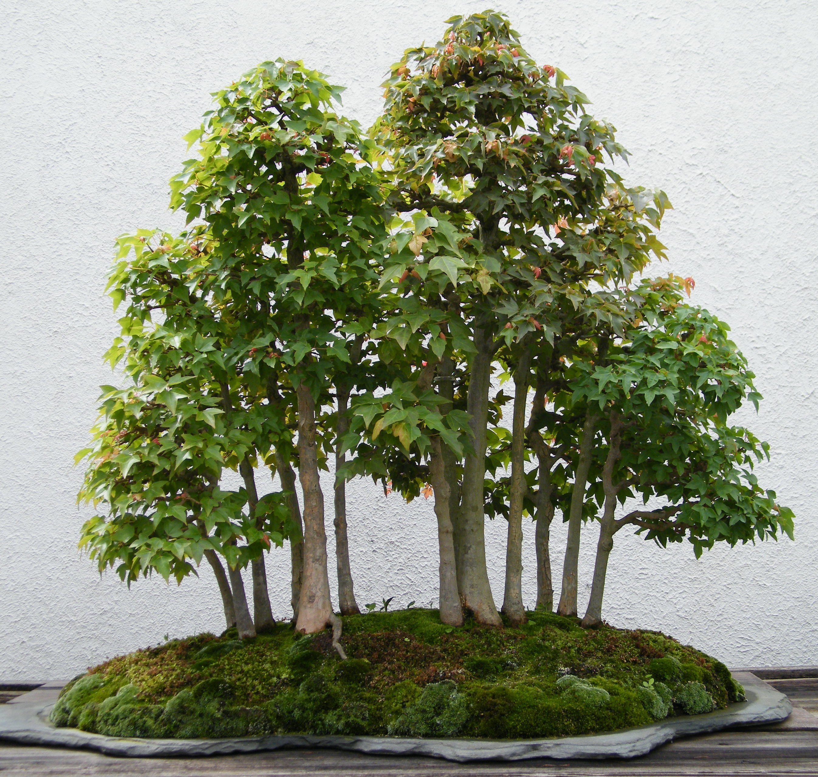 A Trident Maple (Acer buergerianum) bonsai, North American Collection 203, on display at the National Bonsai & Penjing Museum at the United States National Arboretum. According to the tree's display placard, it has been in training since 1985. It was donated by Brussel Martin.